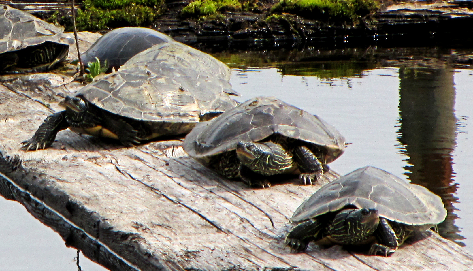 Five Northern Map Turtles (Graptemys geographica), one Midland Painted Turtle (Chrysemys picta marginata) in background, Petrie Island, Ottawa, Ontario, Canada